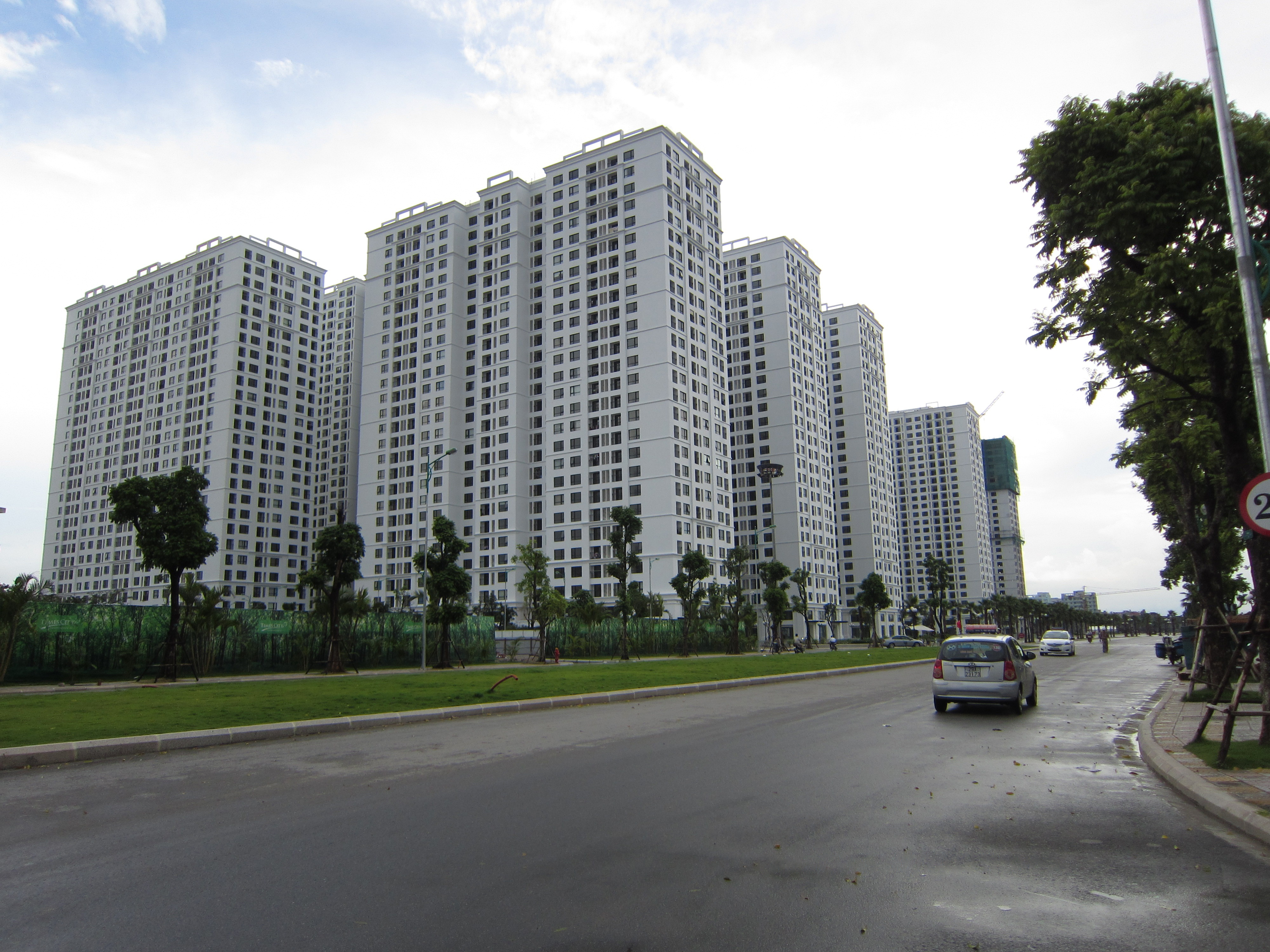 Urban Hanoi City Times, VietnamTiếng Việt: Khu đô thị Times City Hà Nội